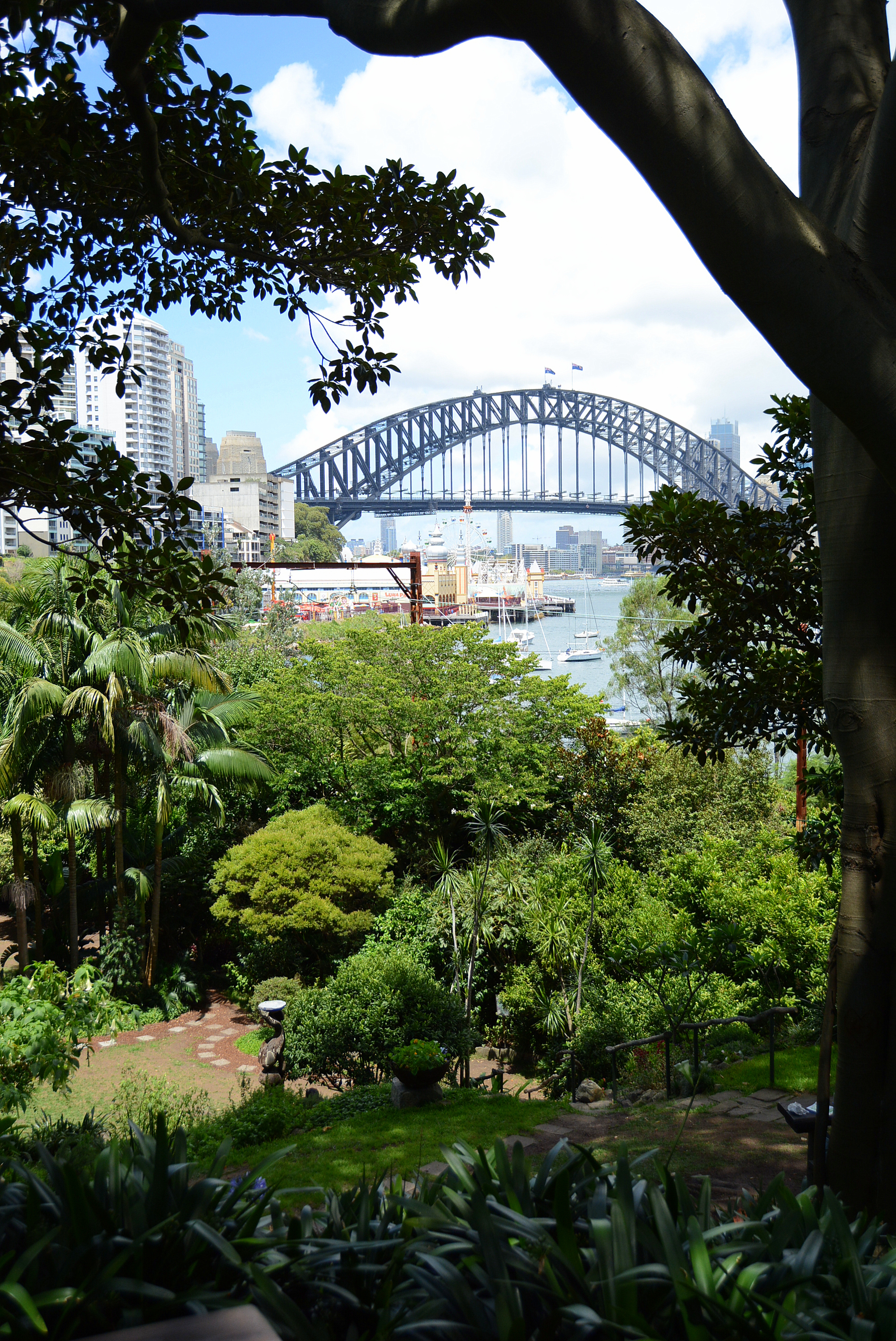 Wendy Whiteley's garden, Lavender Bay, Sydney